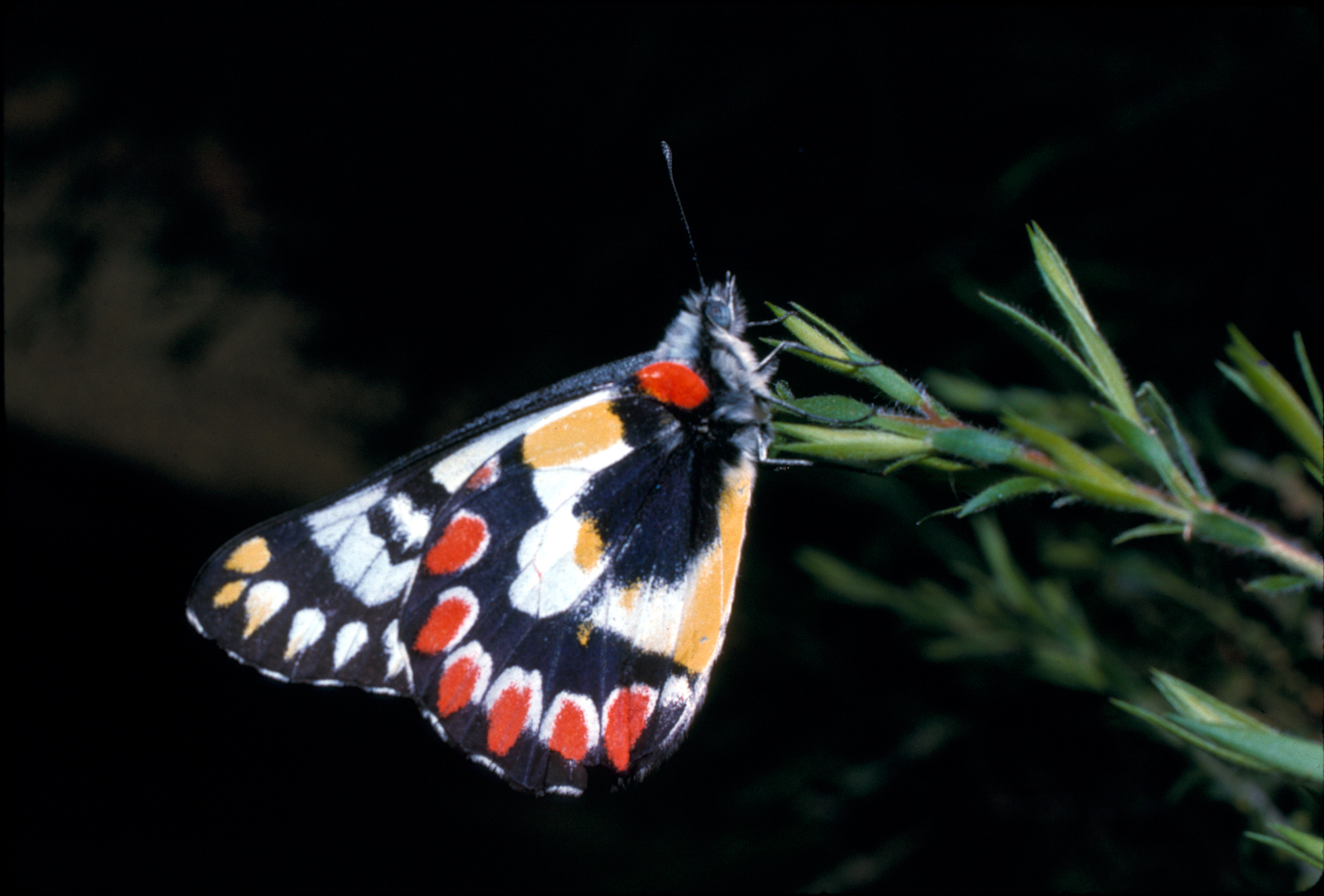 Spotted jezebel